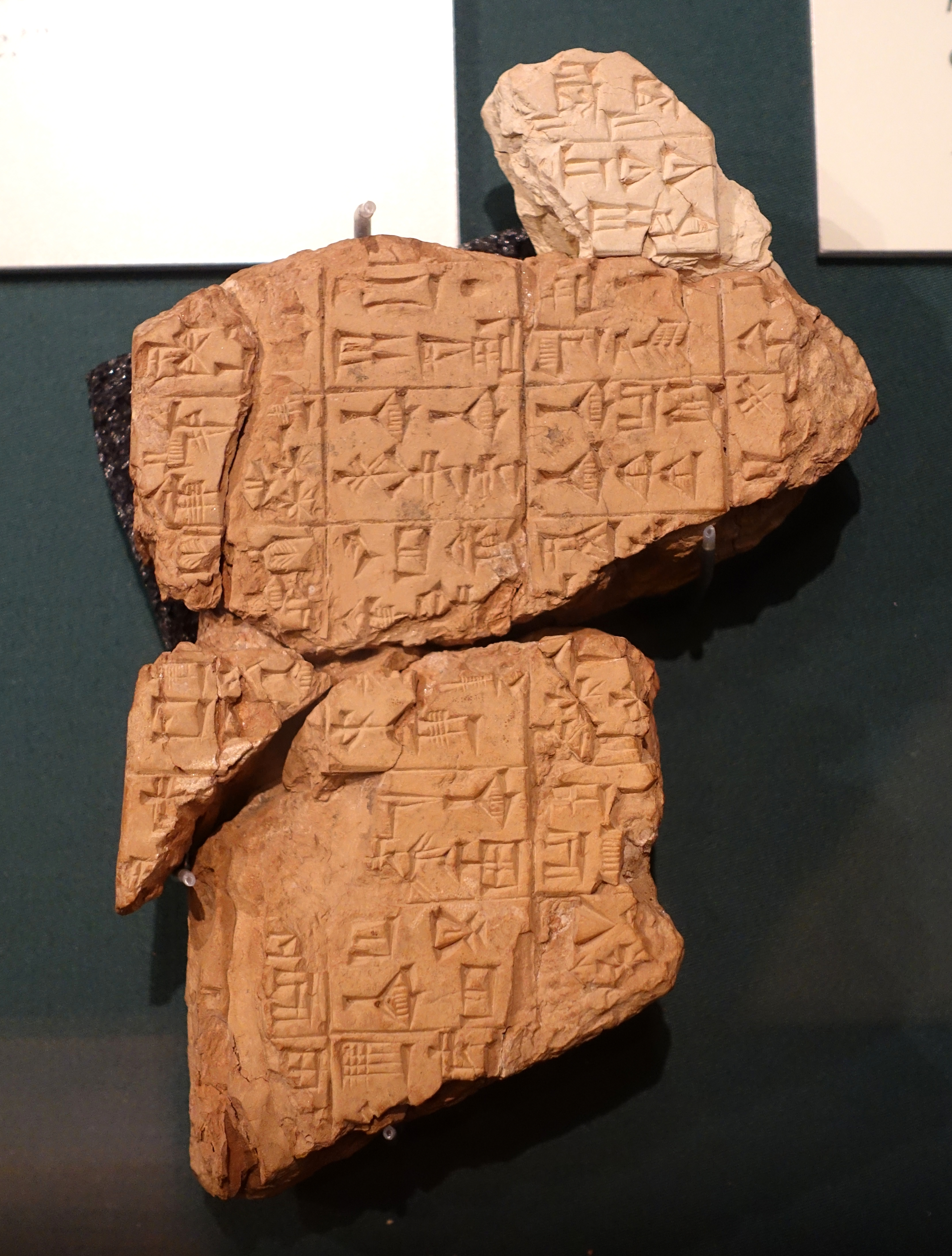 Exhibit in the Oriental Institute Museum, University of Chicago, Chicago, Illinois, USA. This work is old enough so that it is in the public domain. Translation: "Shurrupak gave instructions to his son: / Do not buy an ass which brays too much. / Do not commit rape upon a man's daughter, do not announce it to the courtyard. / Do not answer back against your father, do not raise a 'heavy eye.'".